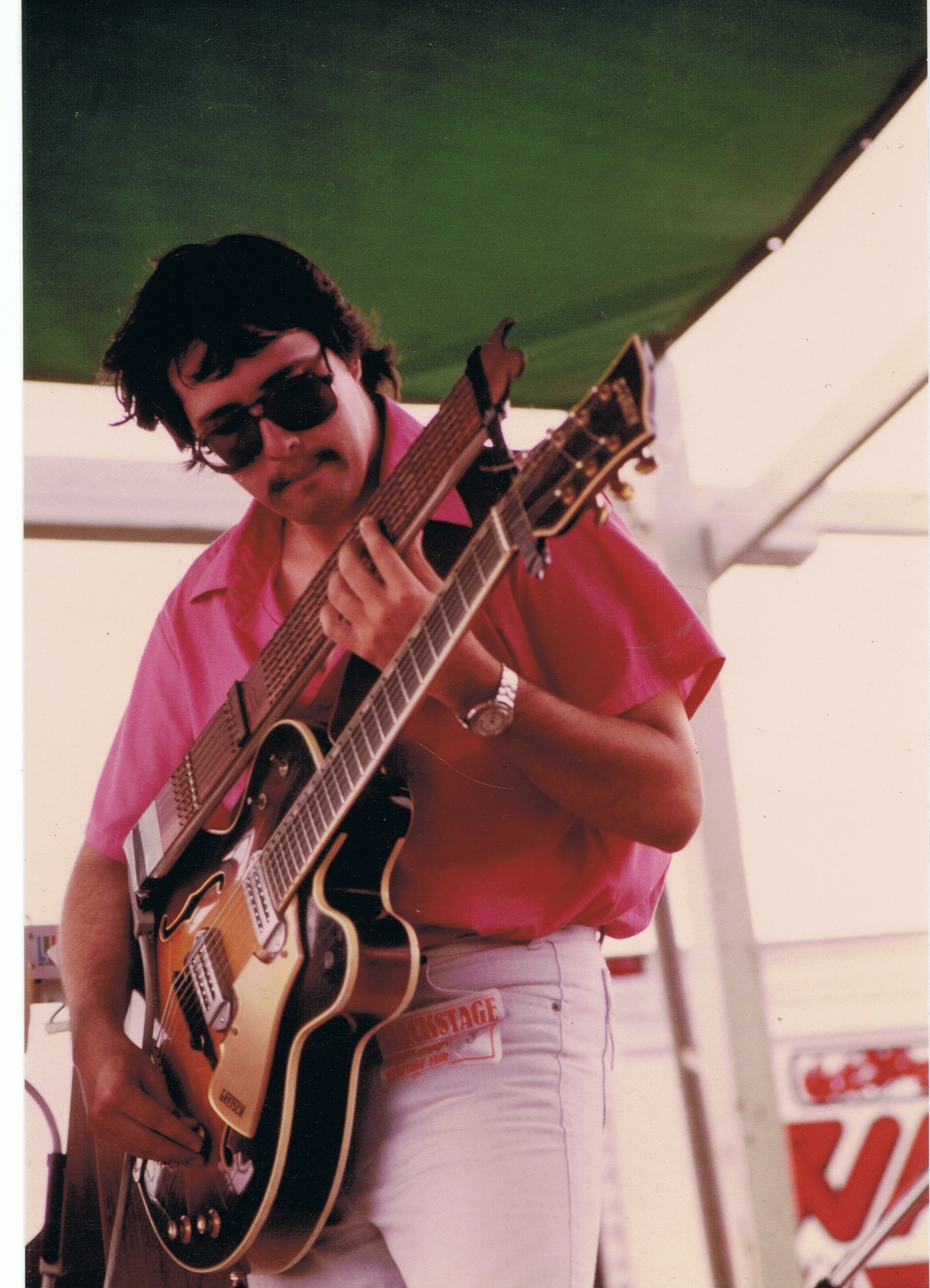 Steve Masakowski playing the keytar above a seven-string guitar